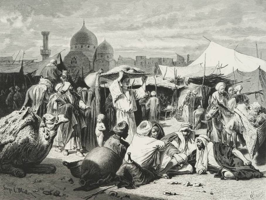 MARKET AT DESOOK.A busy marketplace, with many people sitting or standing under crude coverings and roofs.